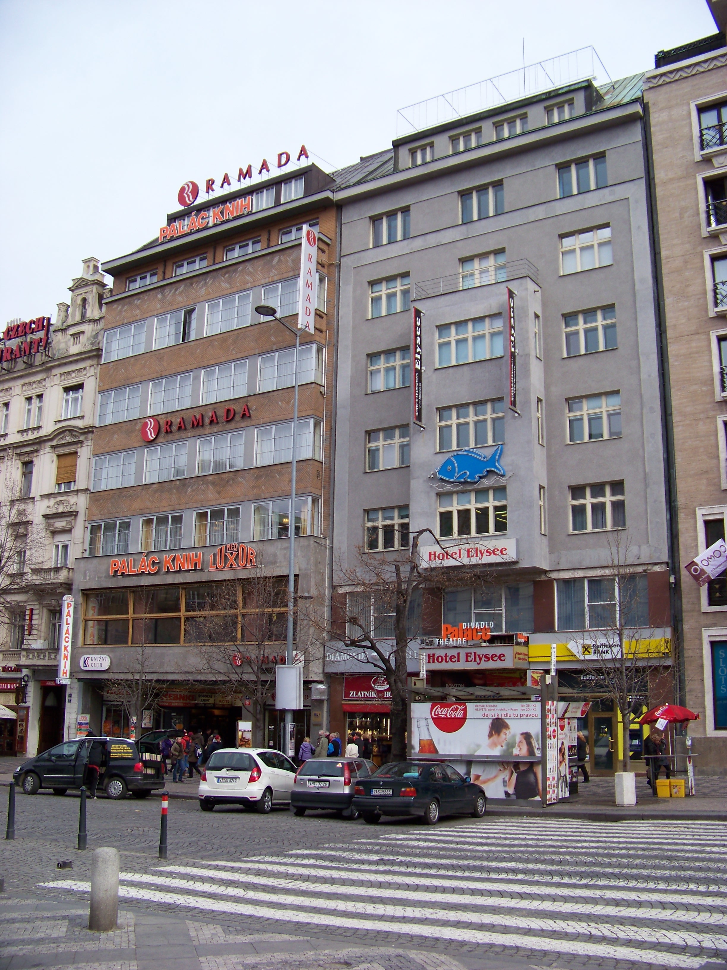 Prague-New Town, the Czech Republic. Wenceslas Square 41 and 43. - OpenStreetMap (Info)